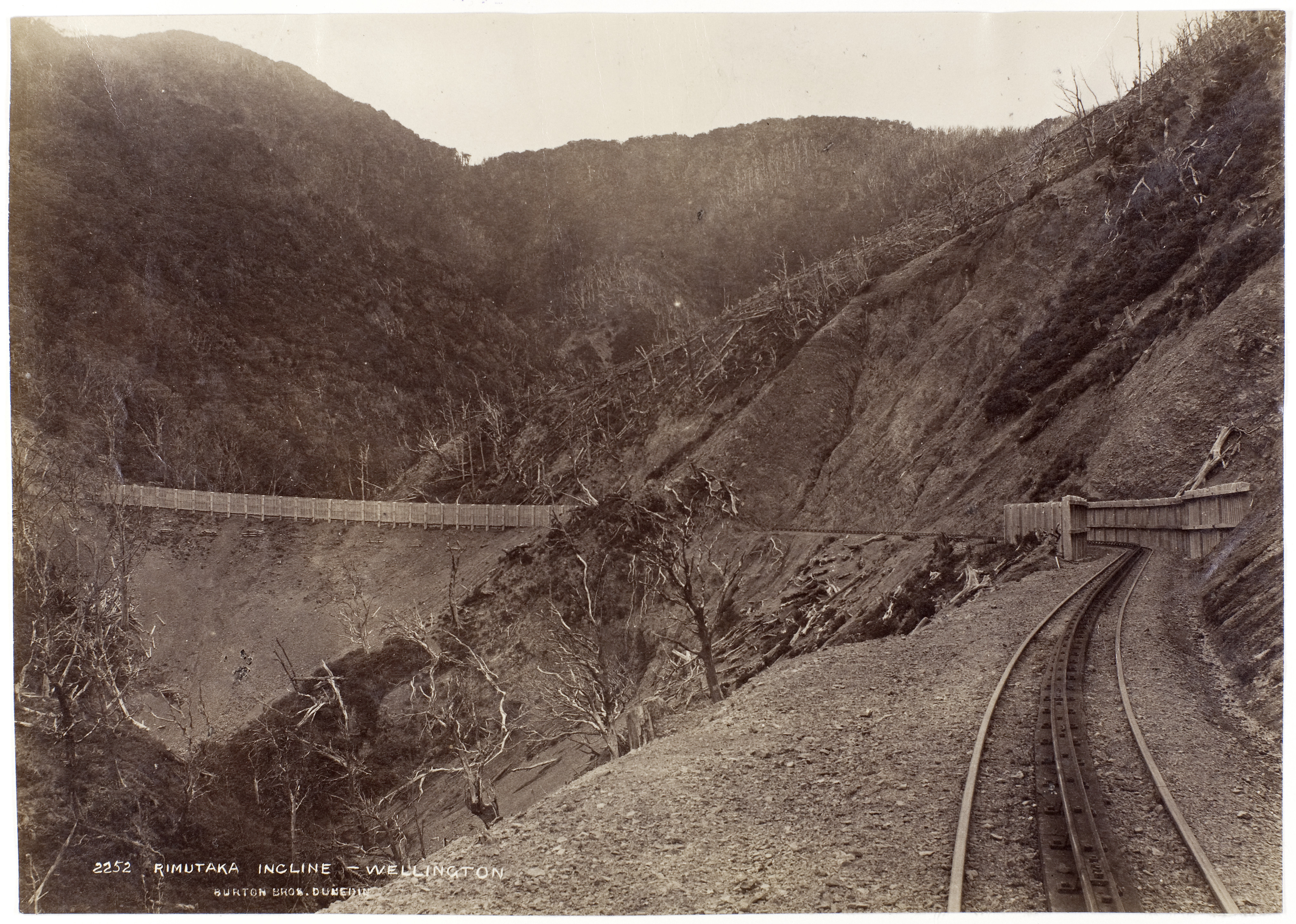 Siberia Rimutaka Incline Fell railway between Featherston and Cross Creek New Zealand